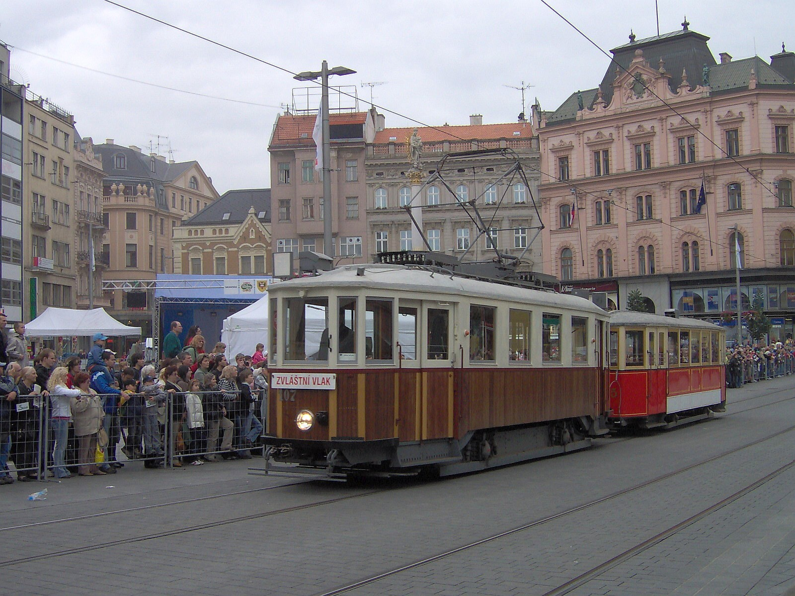 Historical tram No. 107 with trailer No. 215, 140 years of public transport in Brno, Czech Republic